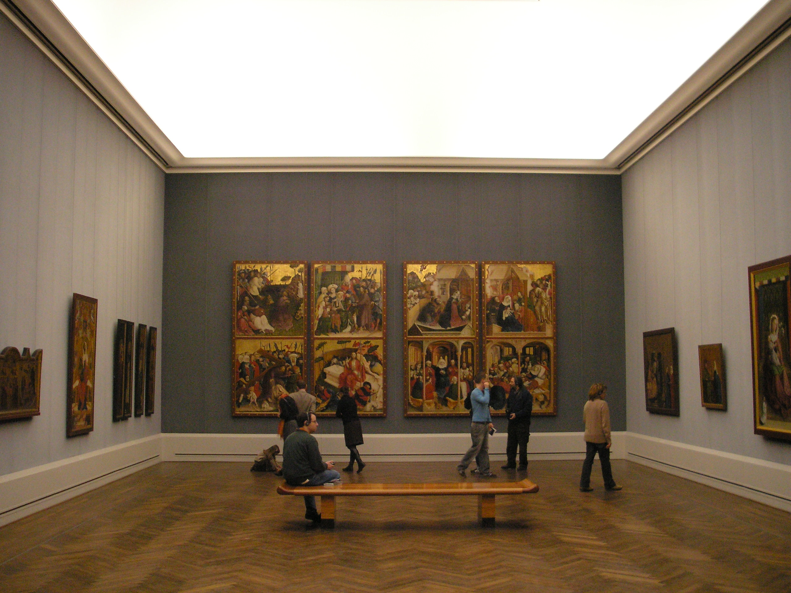 Description: One of the exhibiting rooms, showing medieval sacred art in the Gemäldegalerie in Berlin; room I Source: self-made, I release it into the public domain.